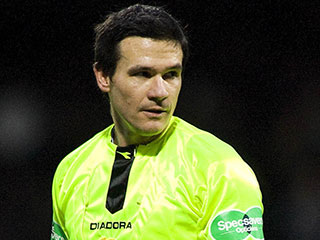 Chris Boyle Referee, Scottish Premier League